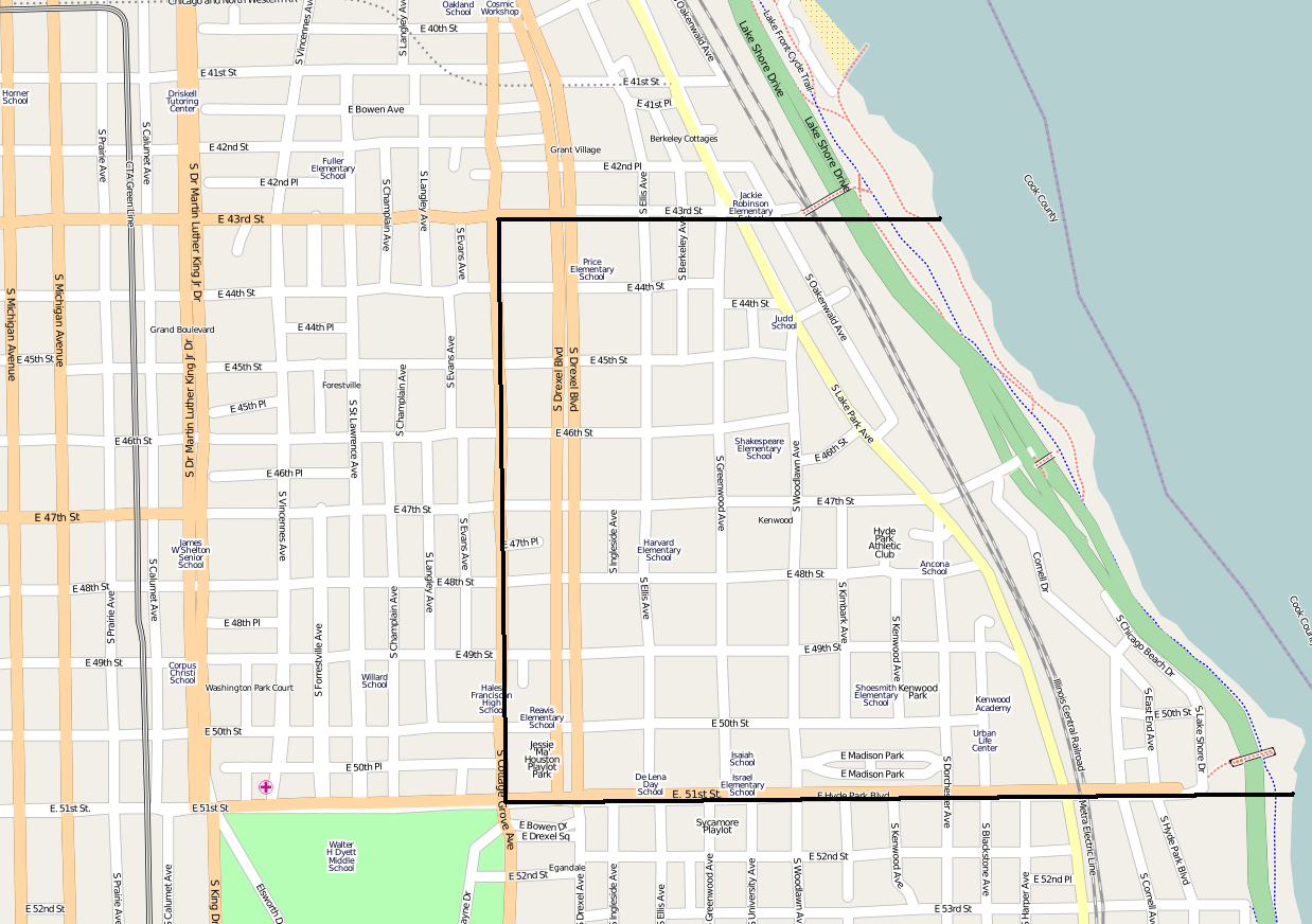 Kenwood, Chicago streetmap This map may be incomplete, and may contain errors. Don't rely solely on it for navigation.